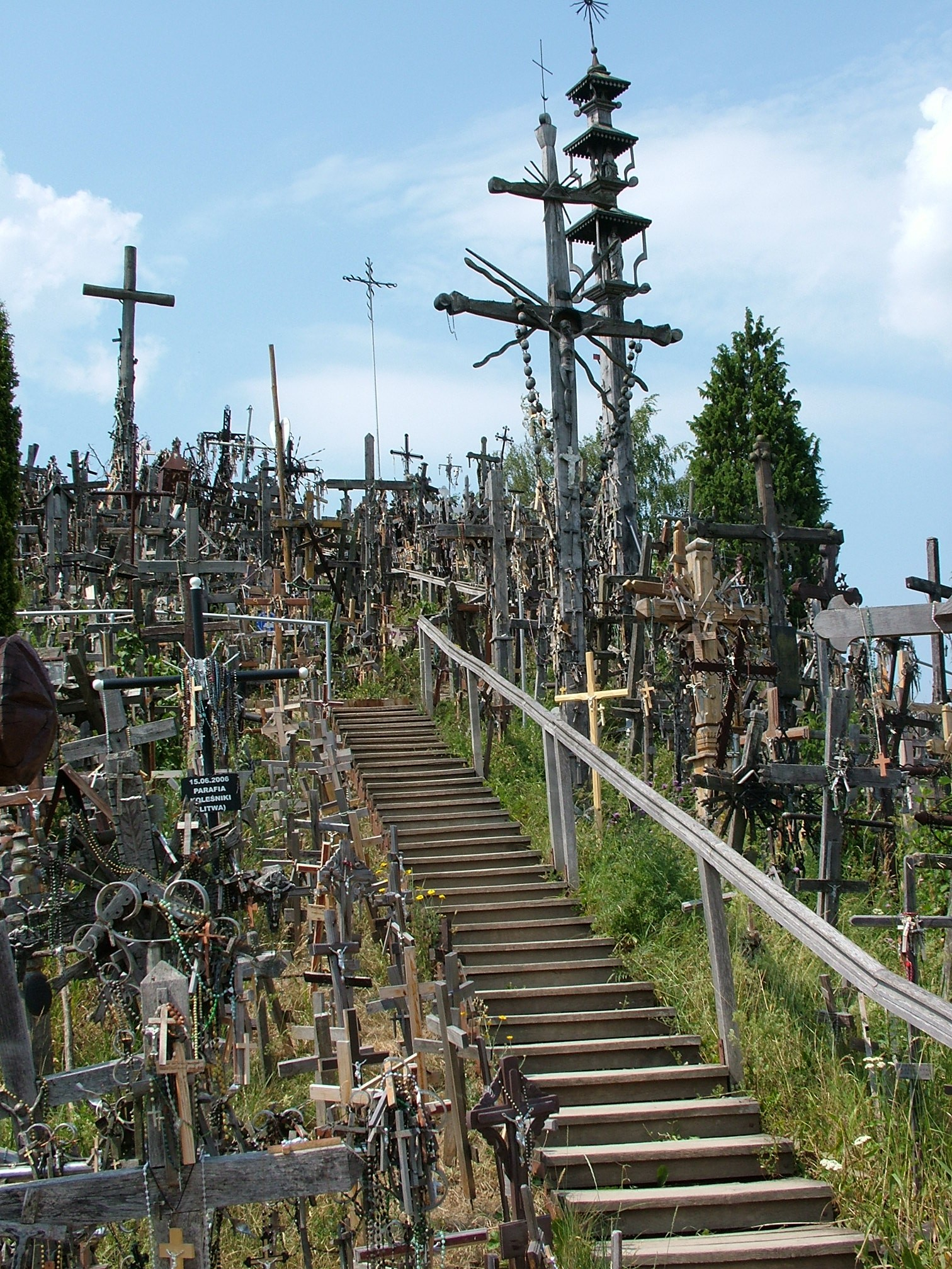 Path through crosses. Hill of Crosses, Lithuania.